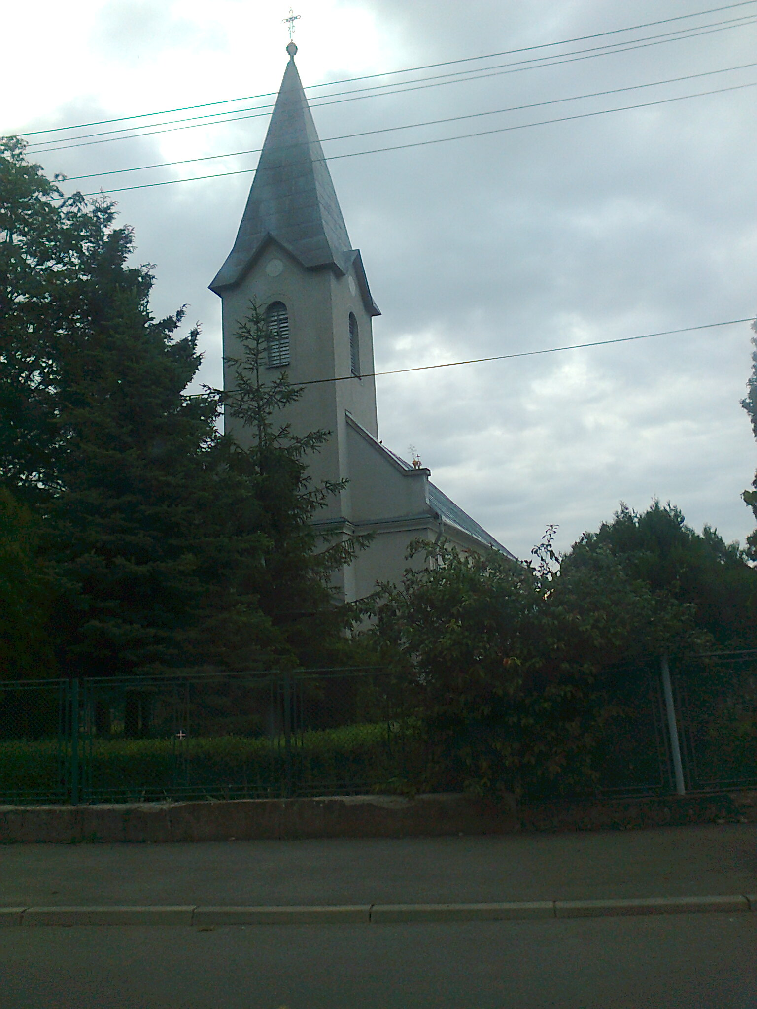 Catholic church in Velky Hores (Slovakia)